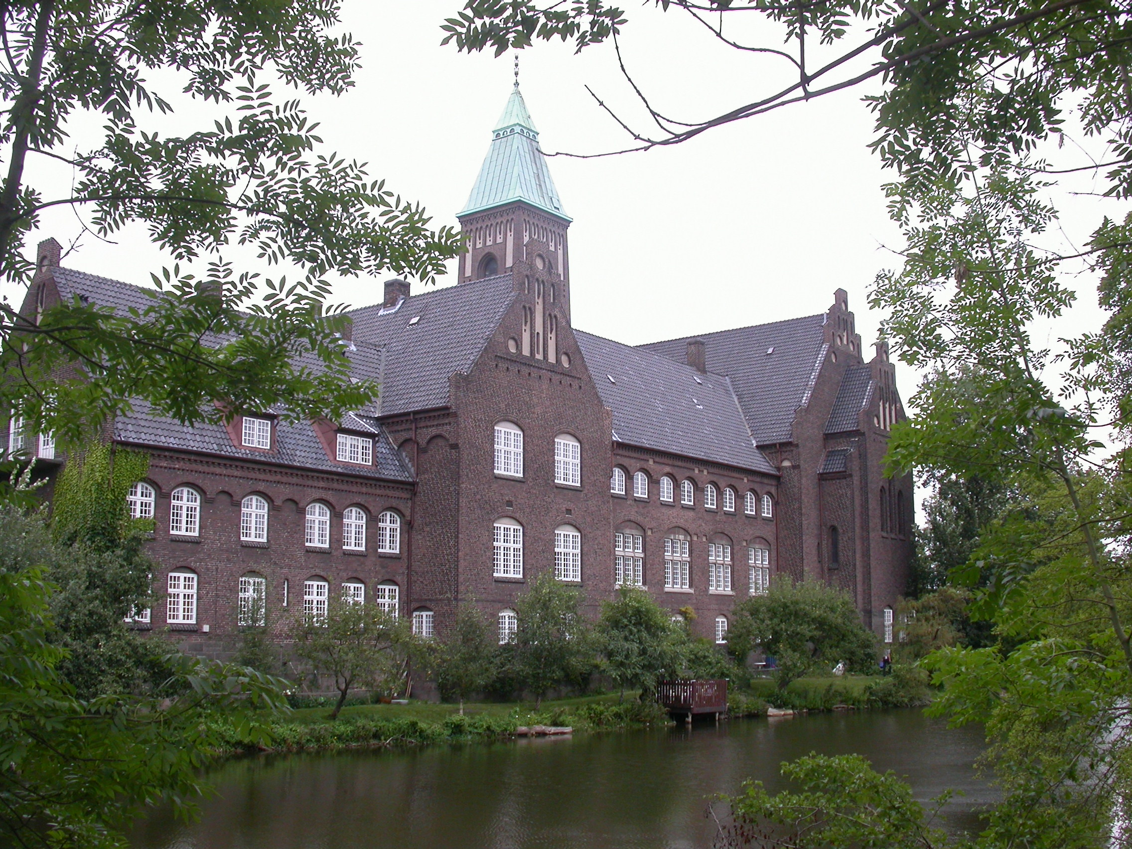 The Gustaf Church (Gustavkirken) in Copenhagen, Denmark, seen across the moat from Kastellet